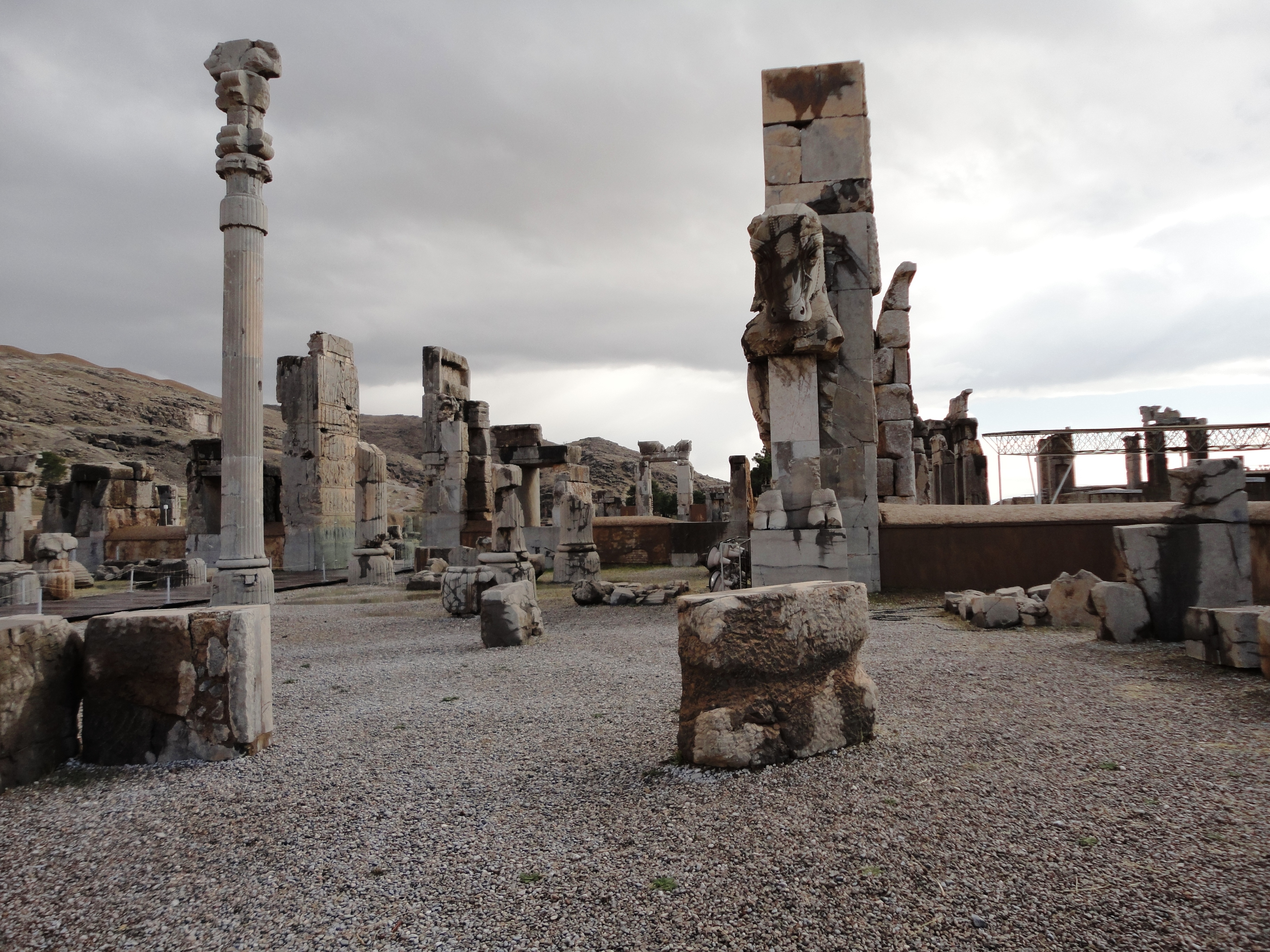 Takht-e Jamshid